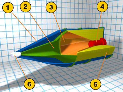 Cumulative shell (H.E.A.T) description